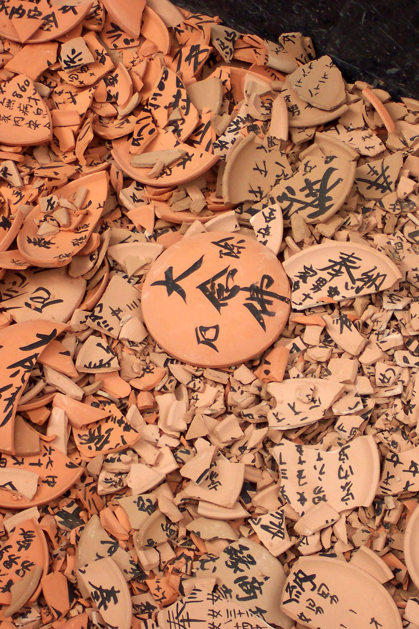 These plates are sold during the Setsubun festival, where people paint their names and family's names on them. Then, at the climax of a kyōgen play at Mibu-dera, they're pushed off the edge and shattered.